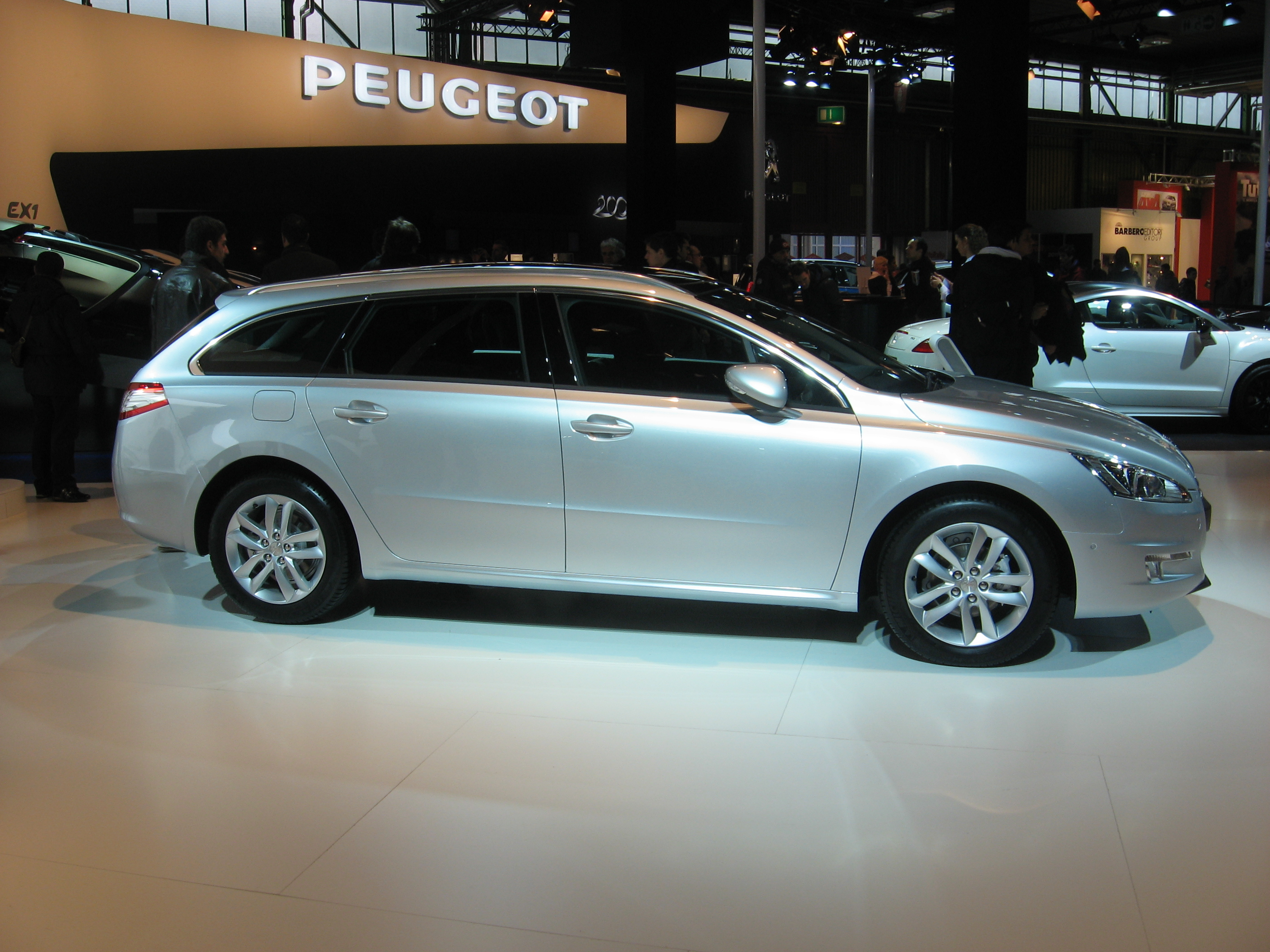 Subject: Peugeot 508 SW Date:December 5th, 2010 Event: Bologna Motor Show 2010 Place/Country: Bologna, Italy I release all rights in the public domain.